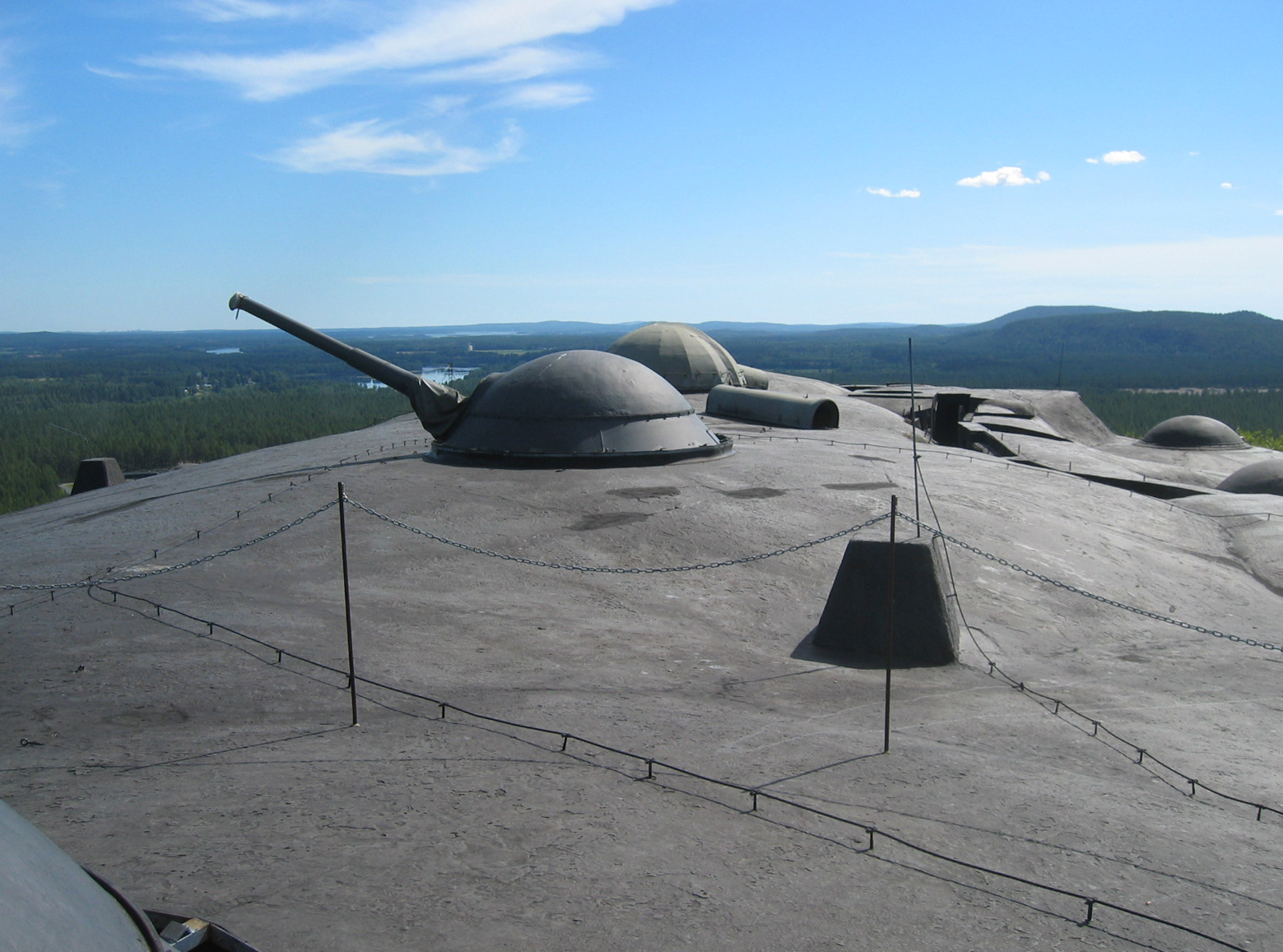 Armoured turrets on top of Rödberget fort, part of Boden Fortress. The guns are probably 12 cm L/50 Bofors M1924.